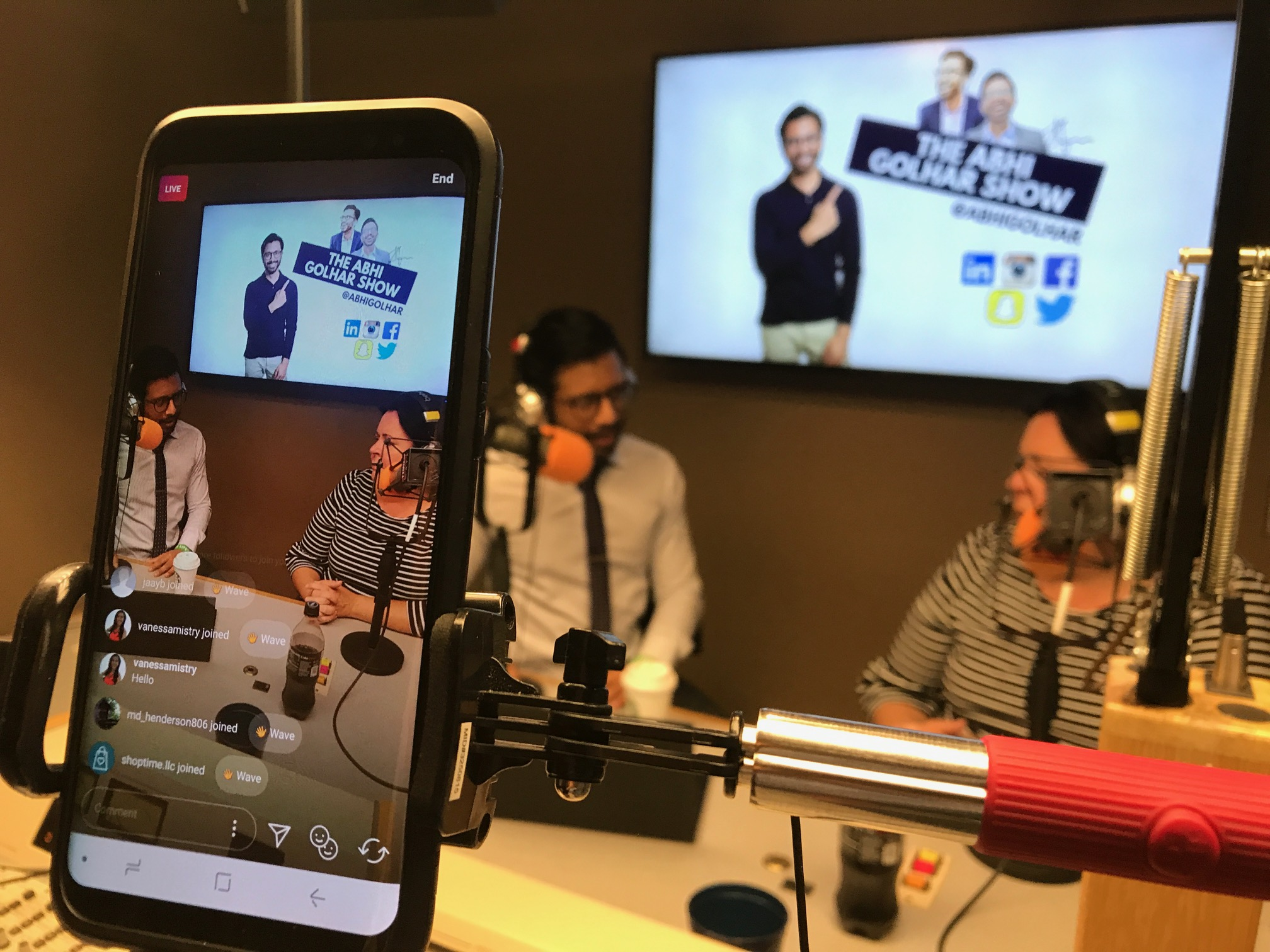 Abhi Golhar hosts The Abhi Golhar Show on biz1190 WAFS Atlanta